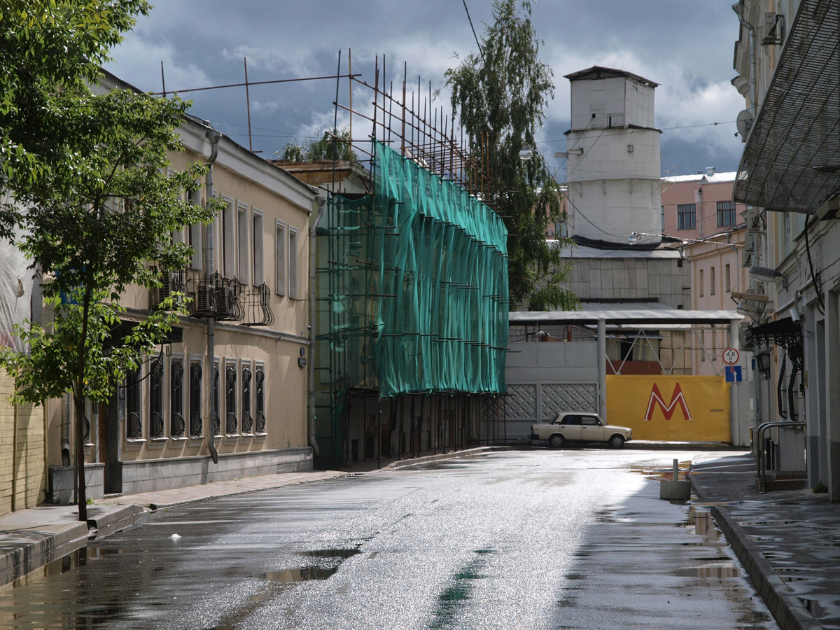 Krivokolenny Lane, view south from Armyansky Lane junction, Moscow